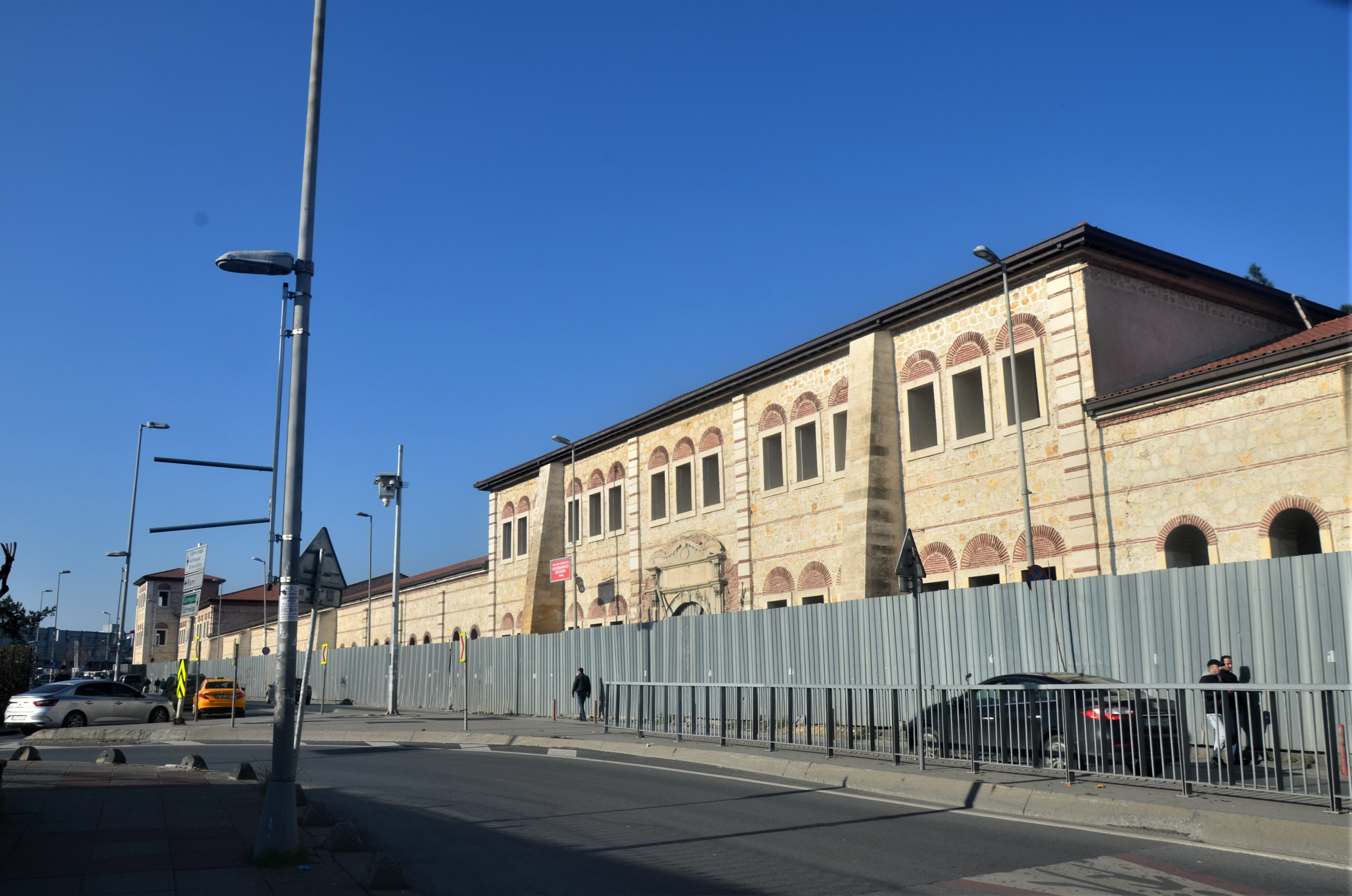 1774-built Rami Barracks in Eyüp, Istanbul, Turkey under construction in 2019 for a redevelopment prooject.